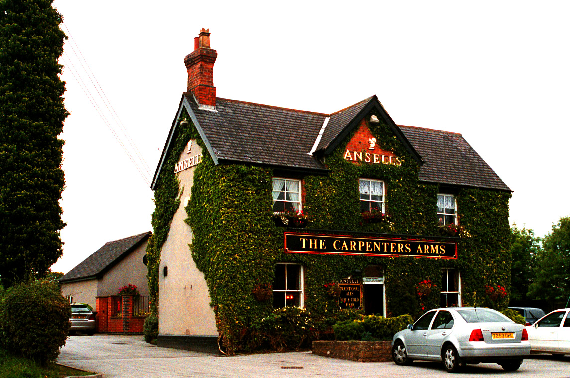 Carpenters Arms Inn owned by the Hollingworths